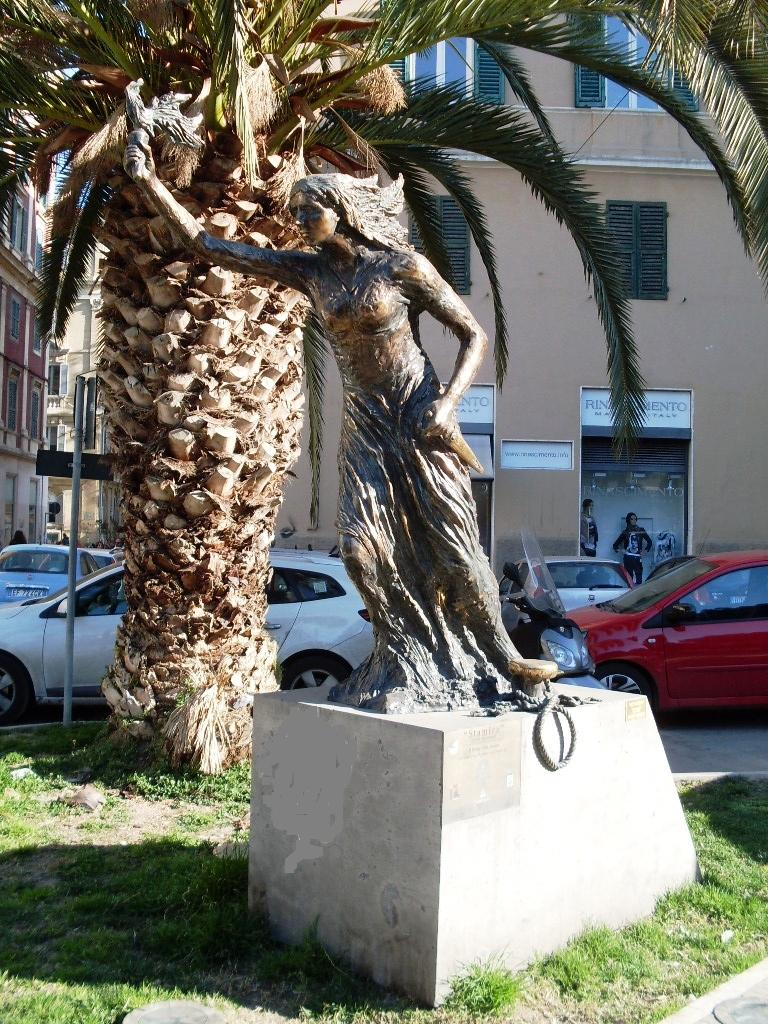 Italy, Ancona, Stamira statue - Middle-ages heroin (legend)